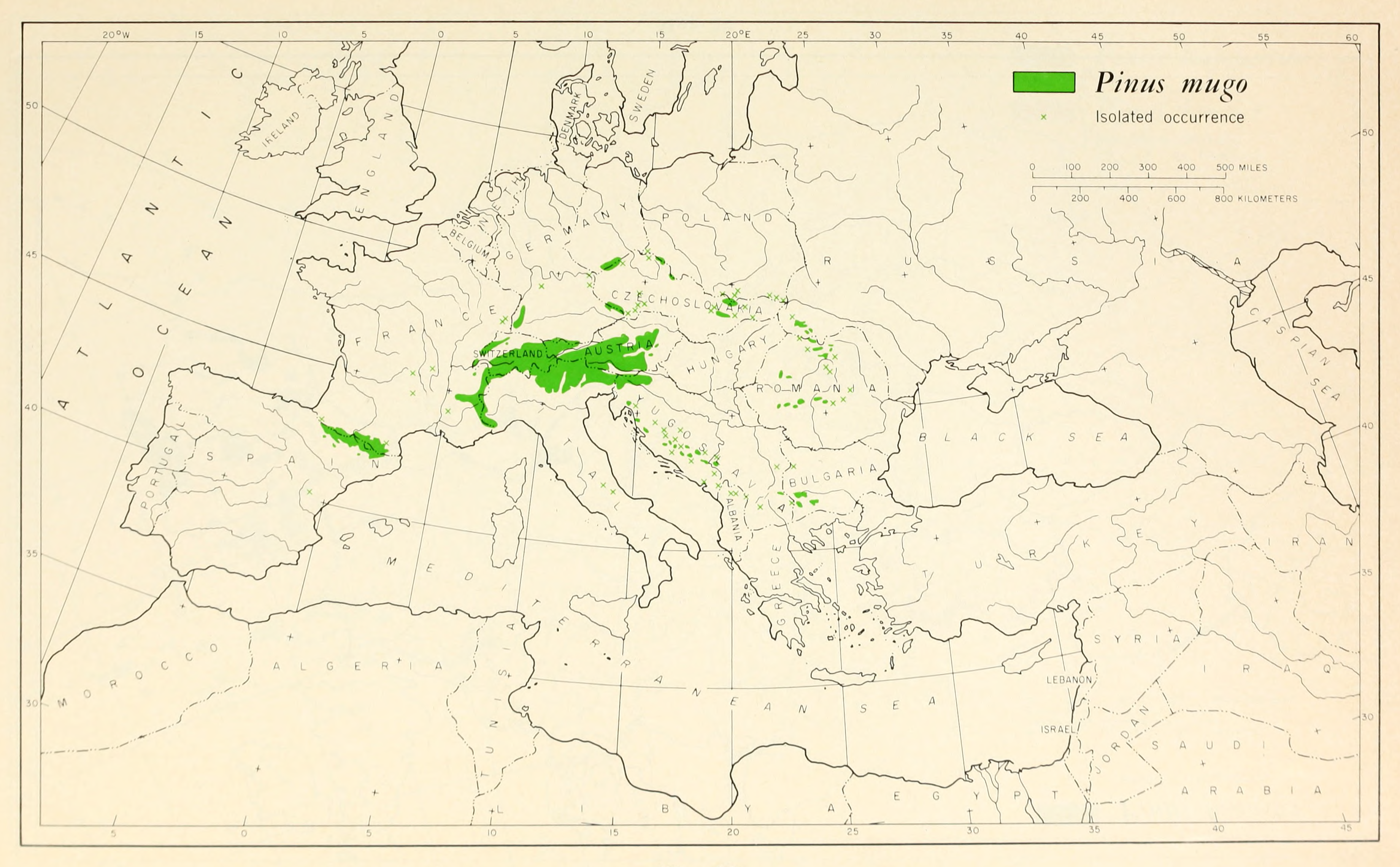 Map 29 Pinus mugo distribution